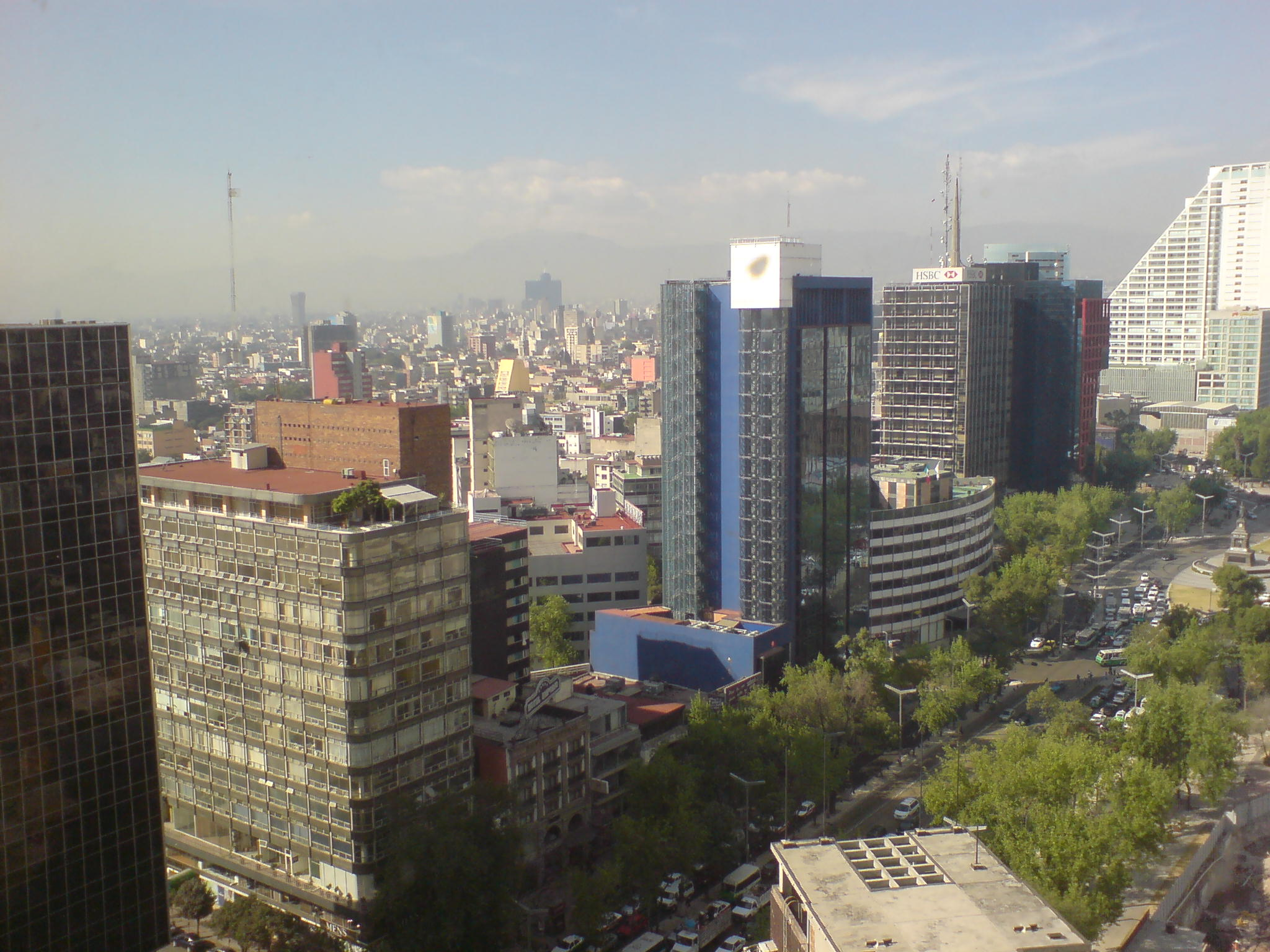 Mexico City